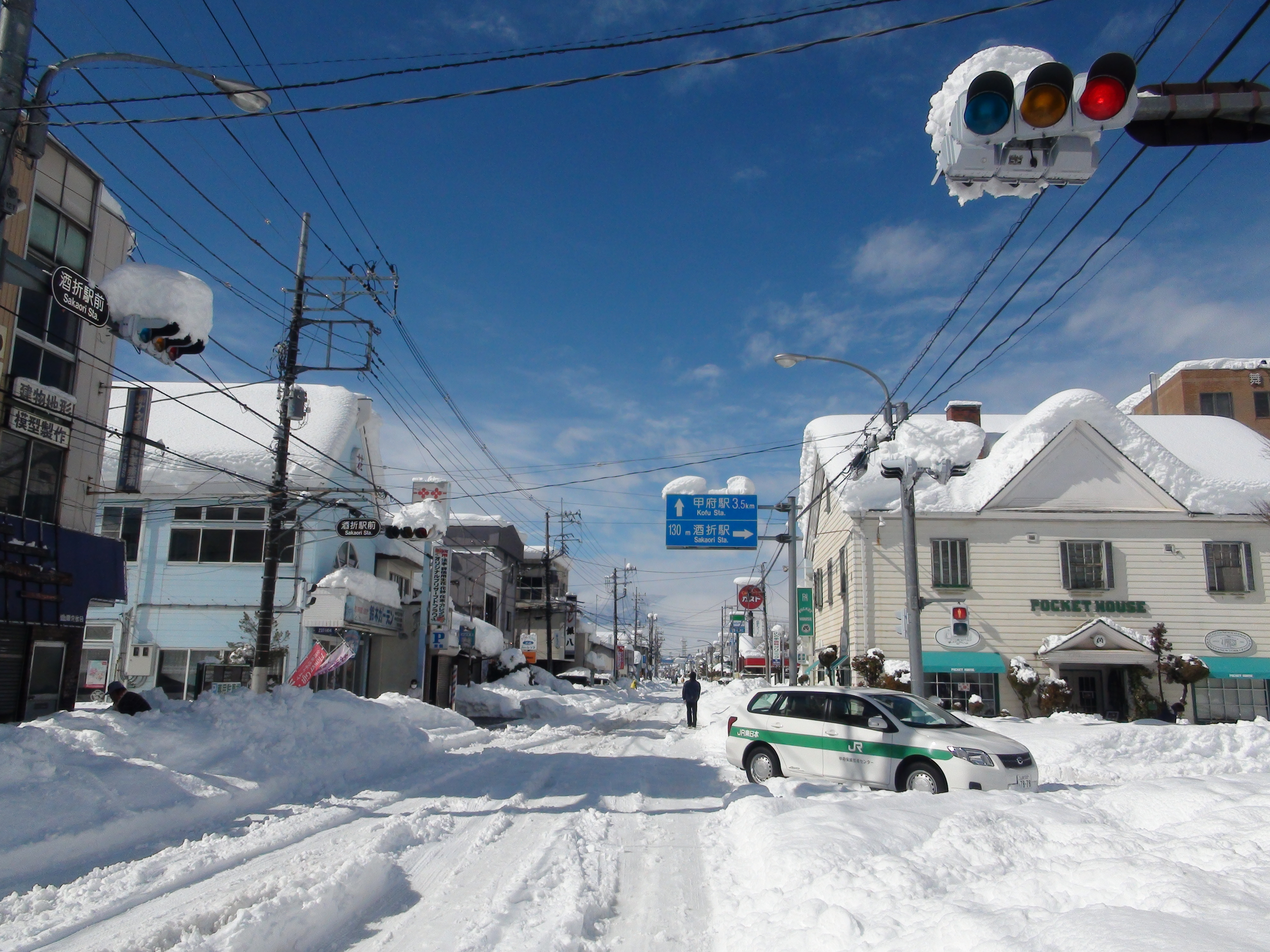 Heavy snow in front of the station Sakaori intersection of February 15, 2014